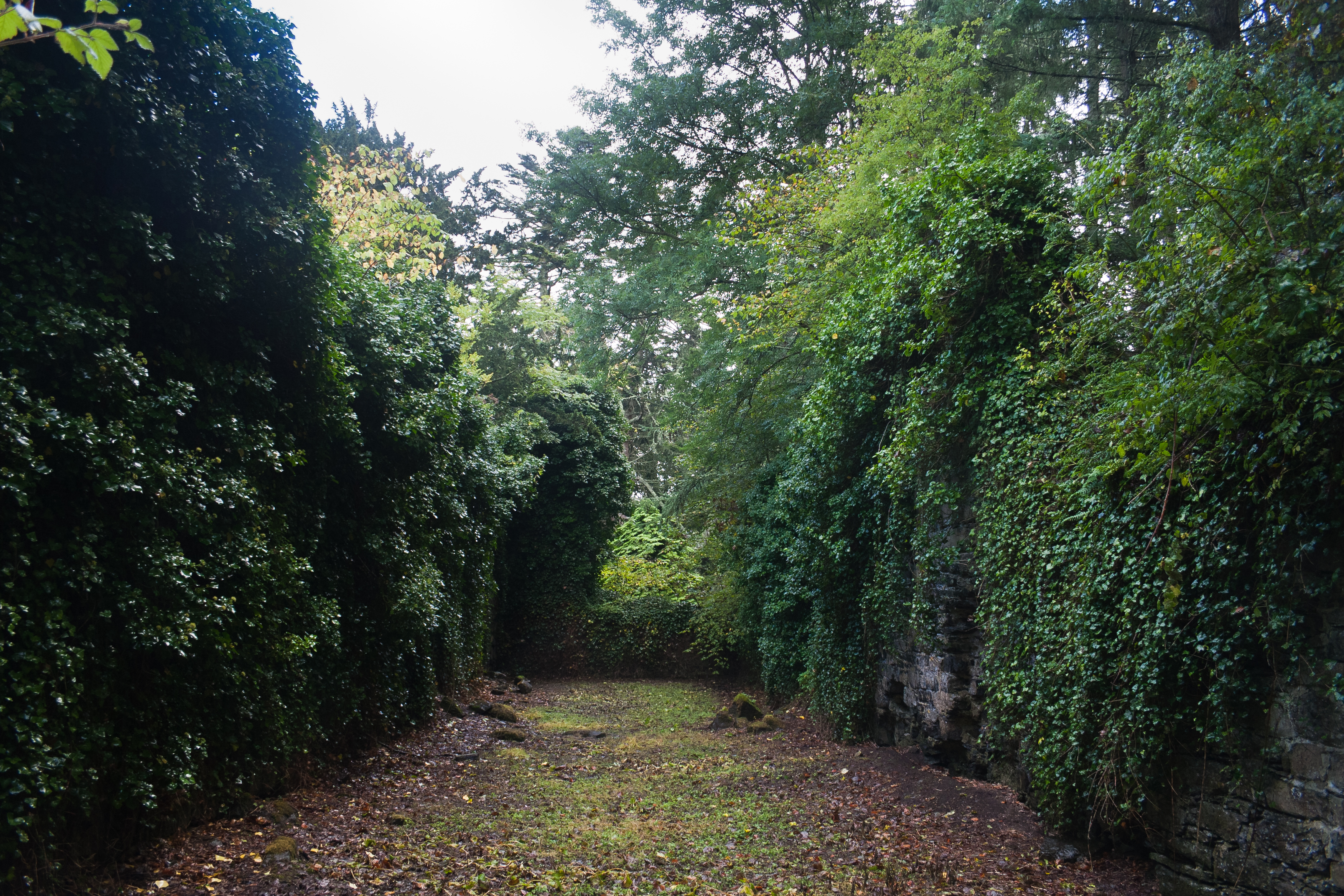 Nave, looking east.